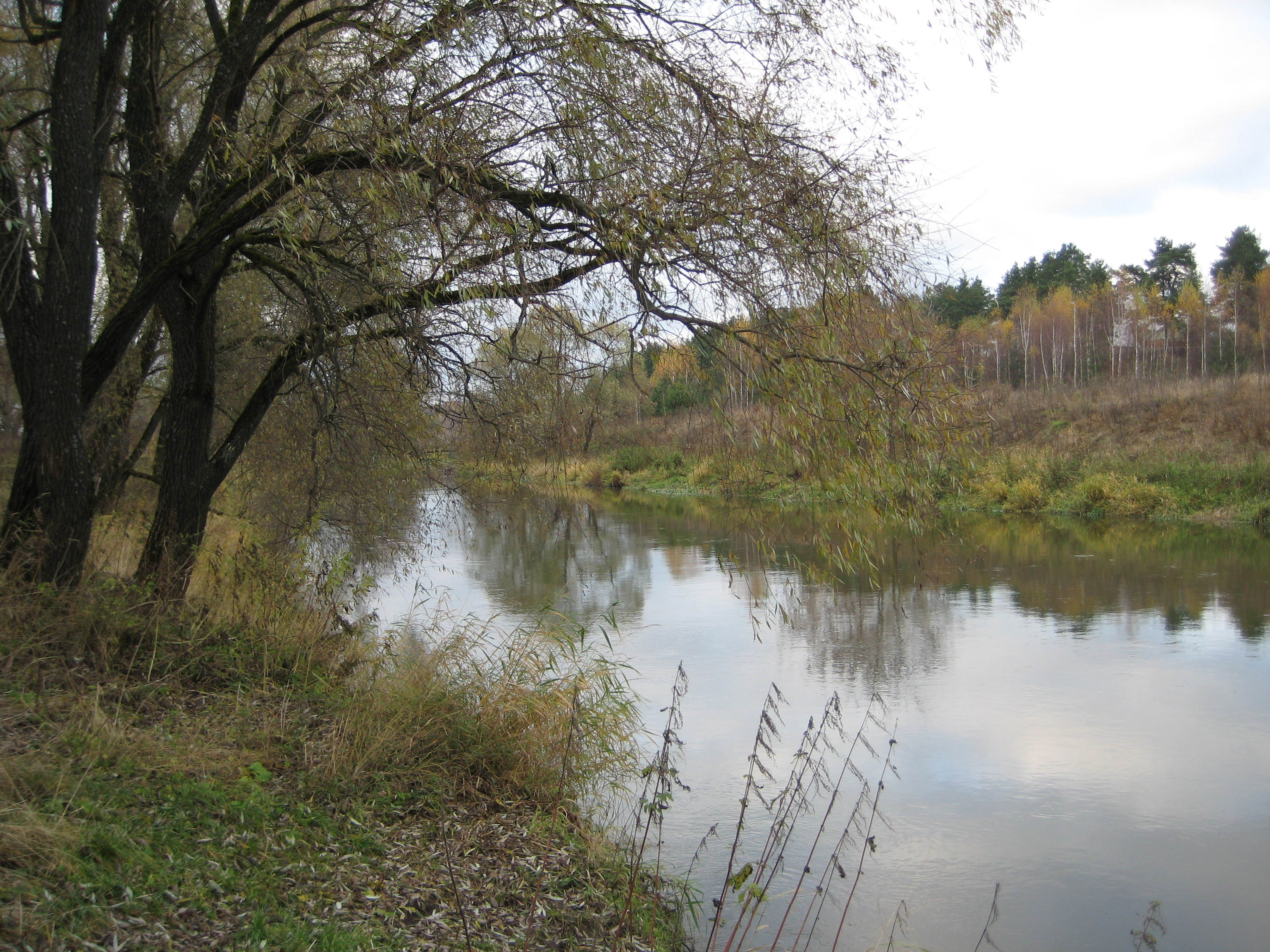 River Istra near village Krasnovidovo